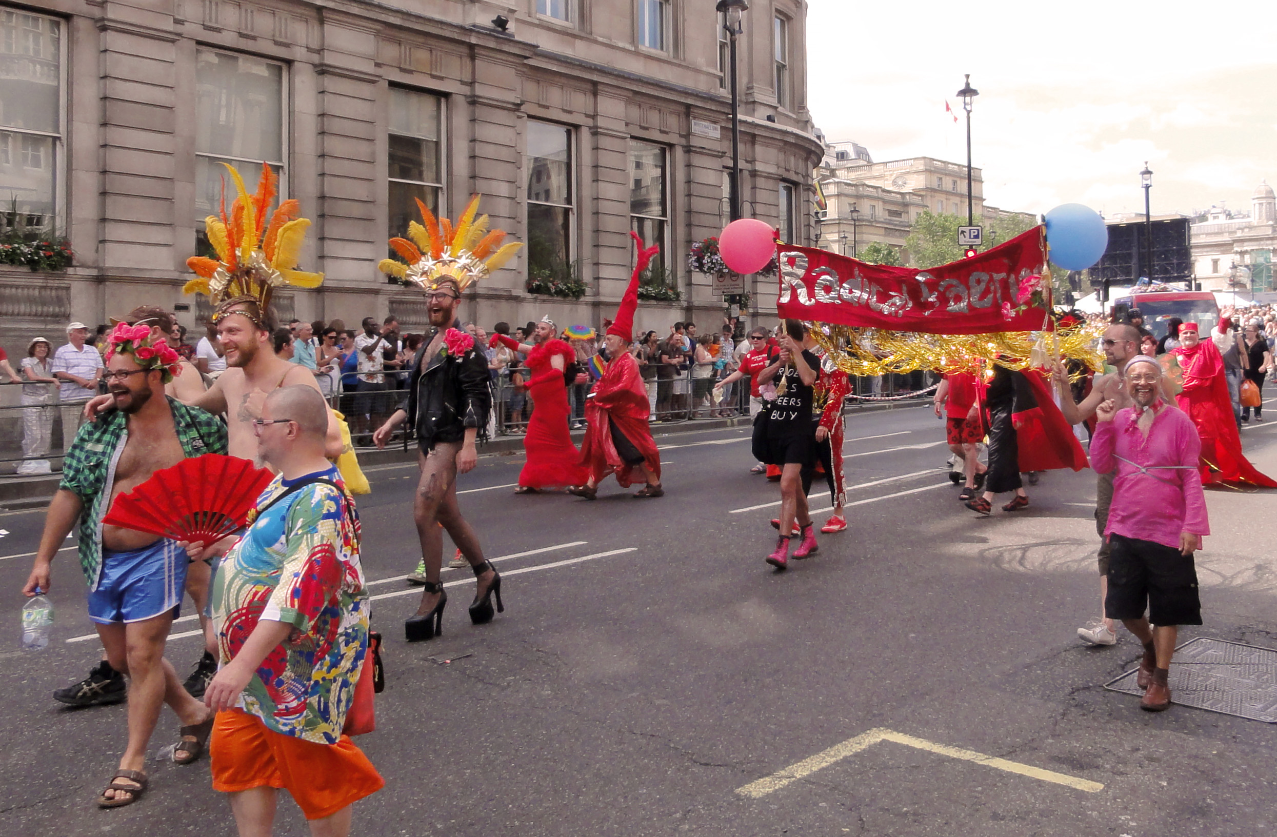 Radical Faeries parade at London Pride, Trafalgar Square.